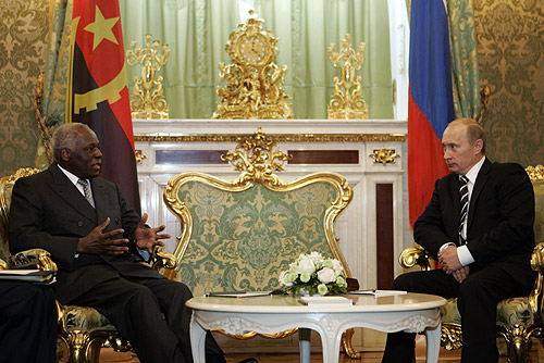 THE KREMLIN, MOSCOW. With the President of Angola, Jose Eduardo dos Santos.